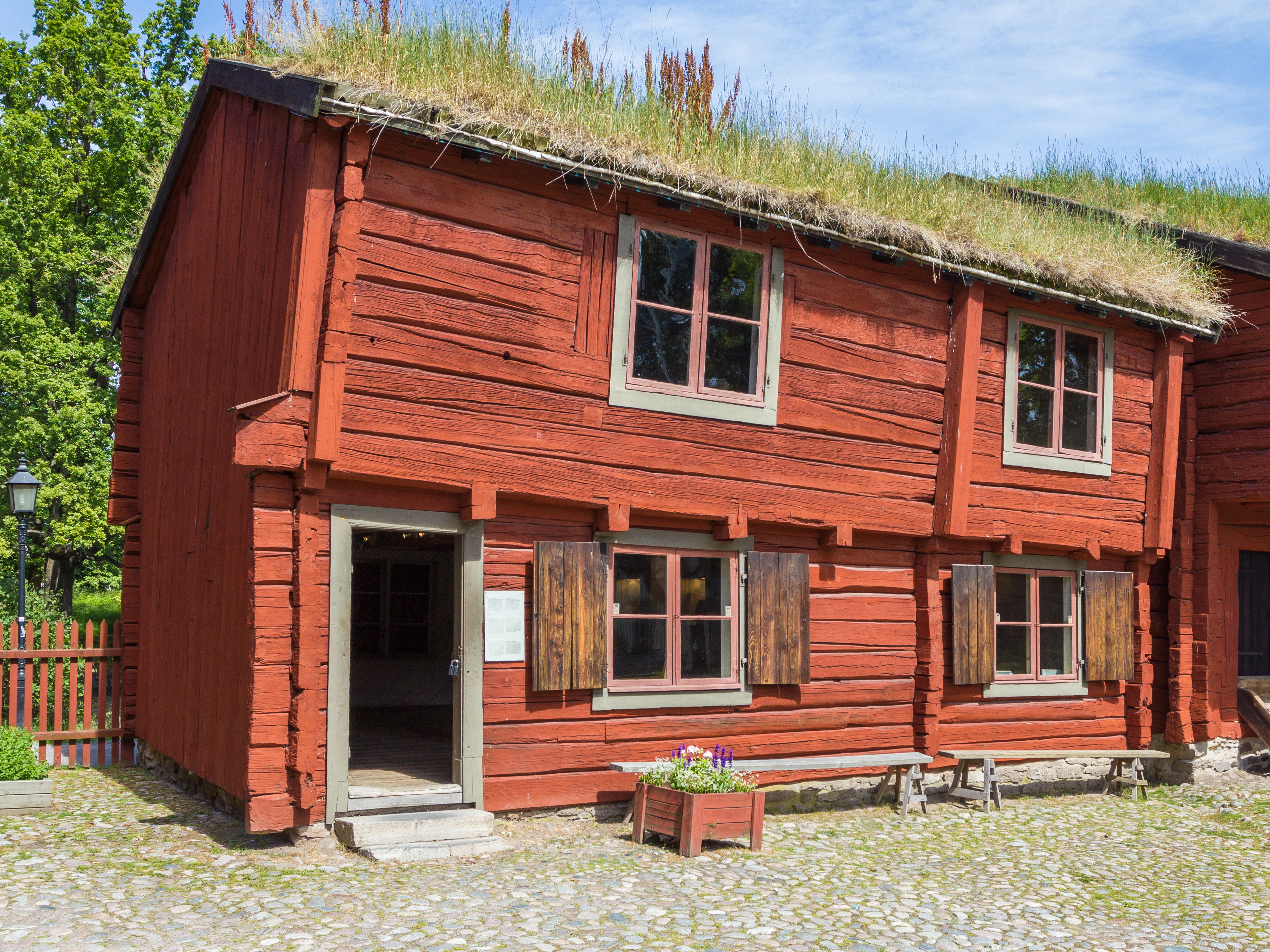 Building Cajsa Wargs hus/Borgarhuset, Wadköping, Örebro, Sweden